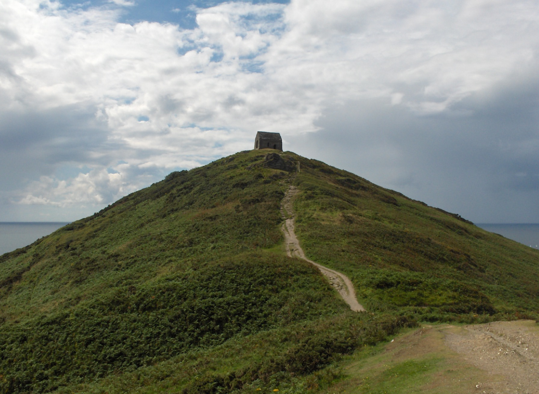 Fourteenth century chapel on Rame Head, Cornwall.